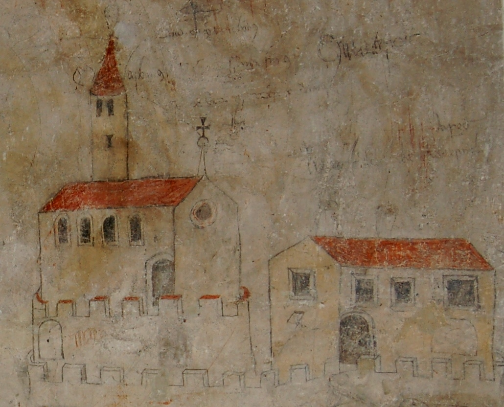 Gothic fresco in the parsonage of St. Johann in Tirol at about 1400